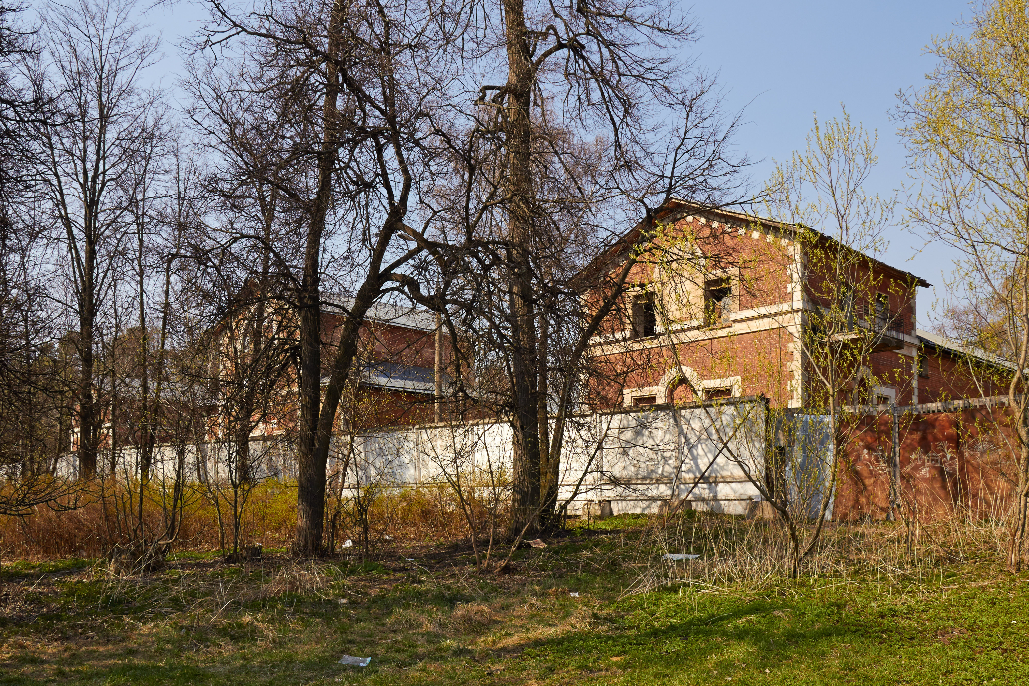 farm, Vlakhernskoye-Kuzminki, Moscow